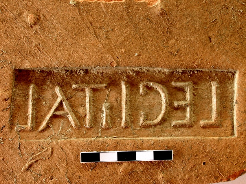 Brick stamp found in Novae and made of solders Legio I Italica.